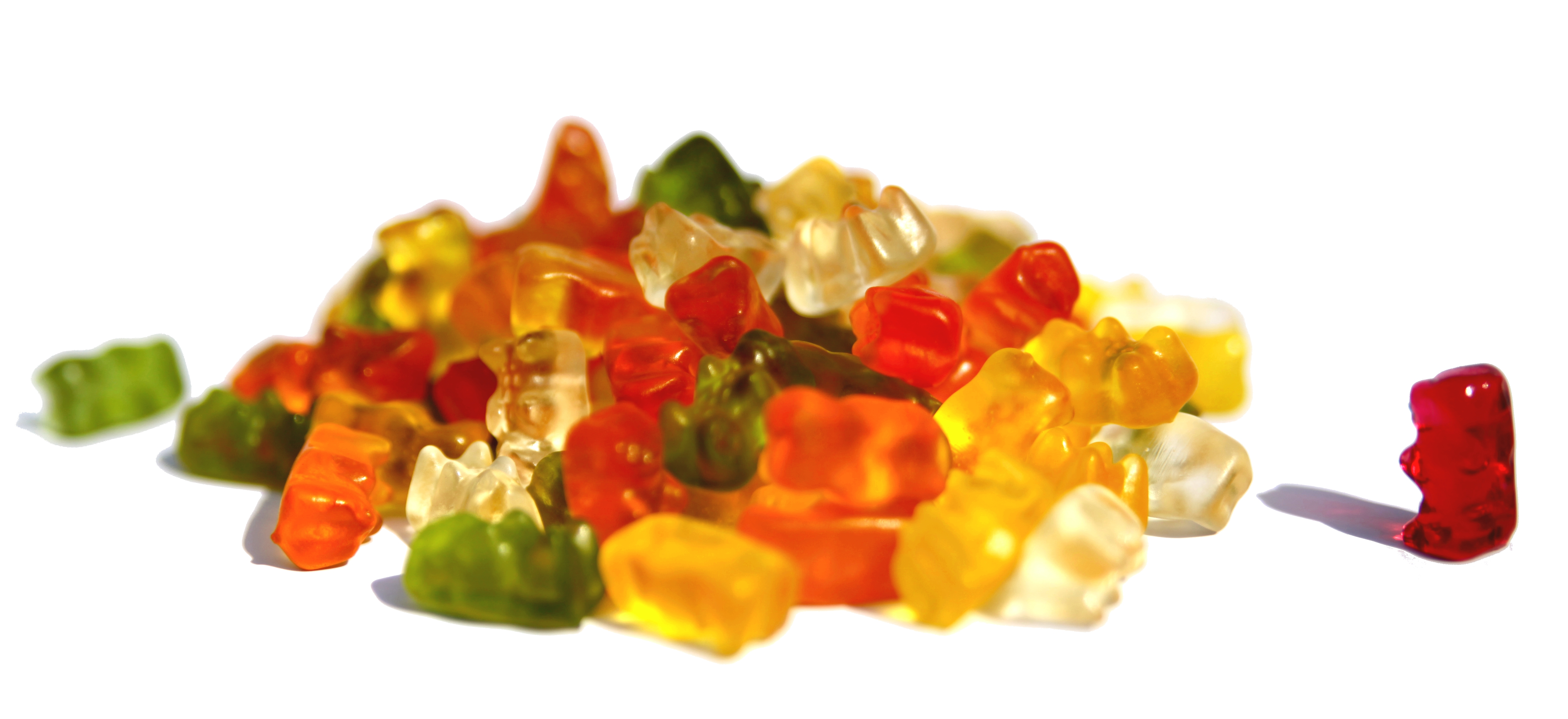 Scenes recreated with gummi bears. Especially useful for illustrating web science related topics.